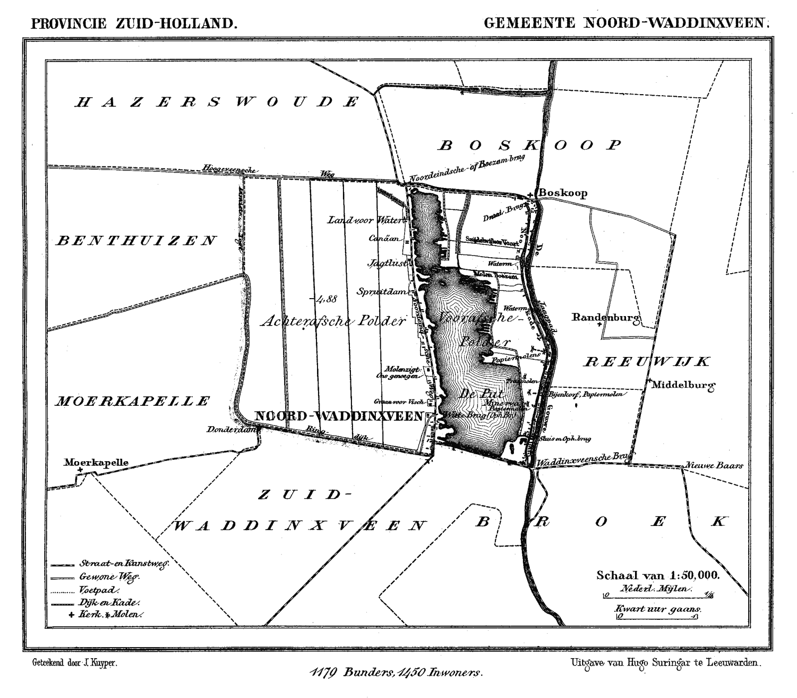 Historic map of Noord Waddinxveen, South Holland, the Netherlands